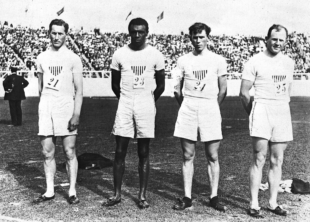 Track (men's), 1600 Meter Relay Team, 1908 Olympic Games. Left-right: Cartmell, Taylor, Sheppard, Hamilton